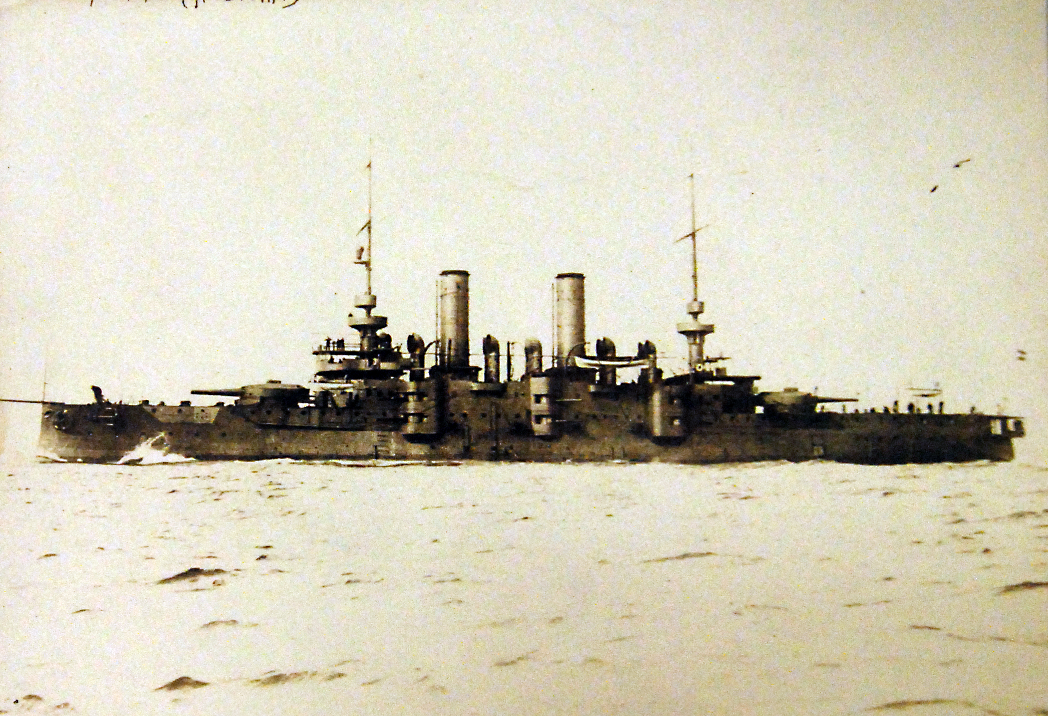 Lot-11271-3: Austrian pre-dreadnought battleship, SMS Arpad, July 29, 1914. George G. Bain Collection. Courtesy of the Library of Congress. (2016/12/02)